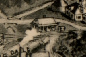 Springdale station on an 1918 bird's eye view map